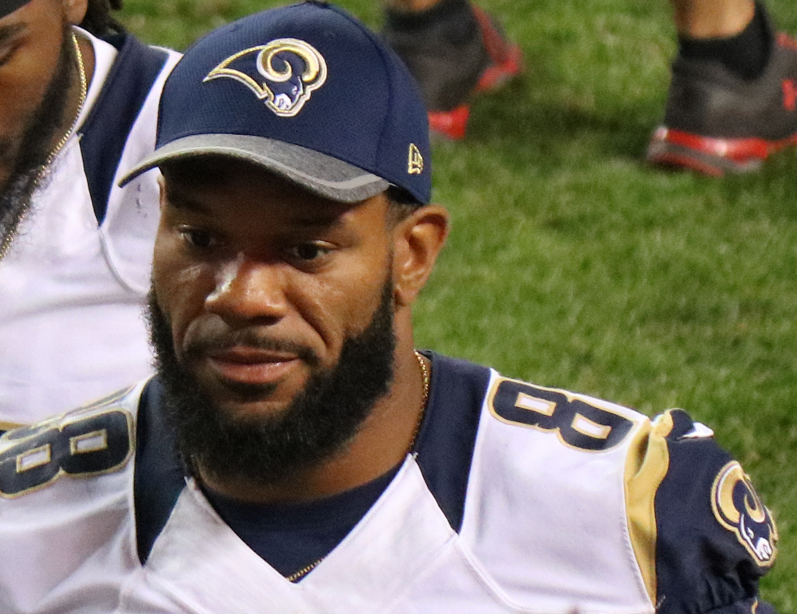 Lance Kendricks, a player on the National Football League.